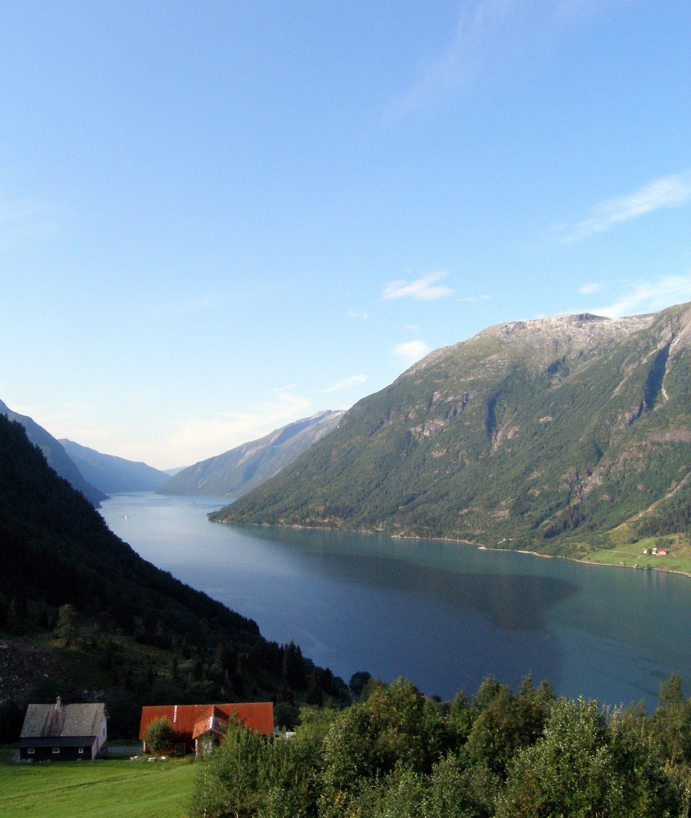 The Fjaerlandfjord, a branch of the Sognefjord, near Fjærland, Norway.